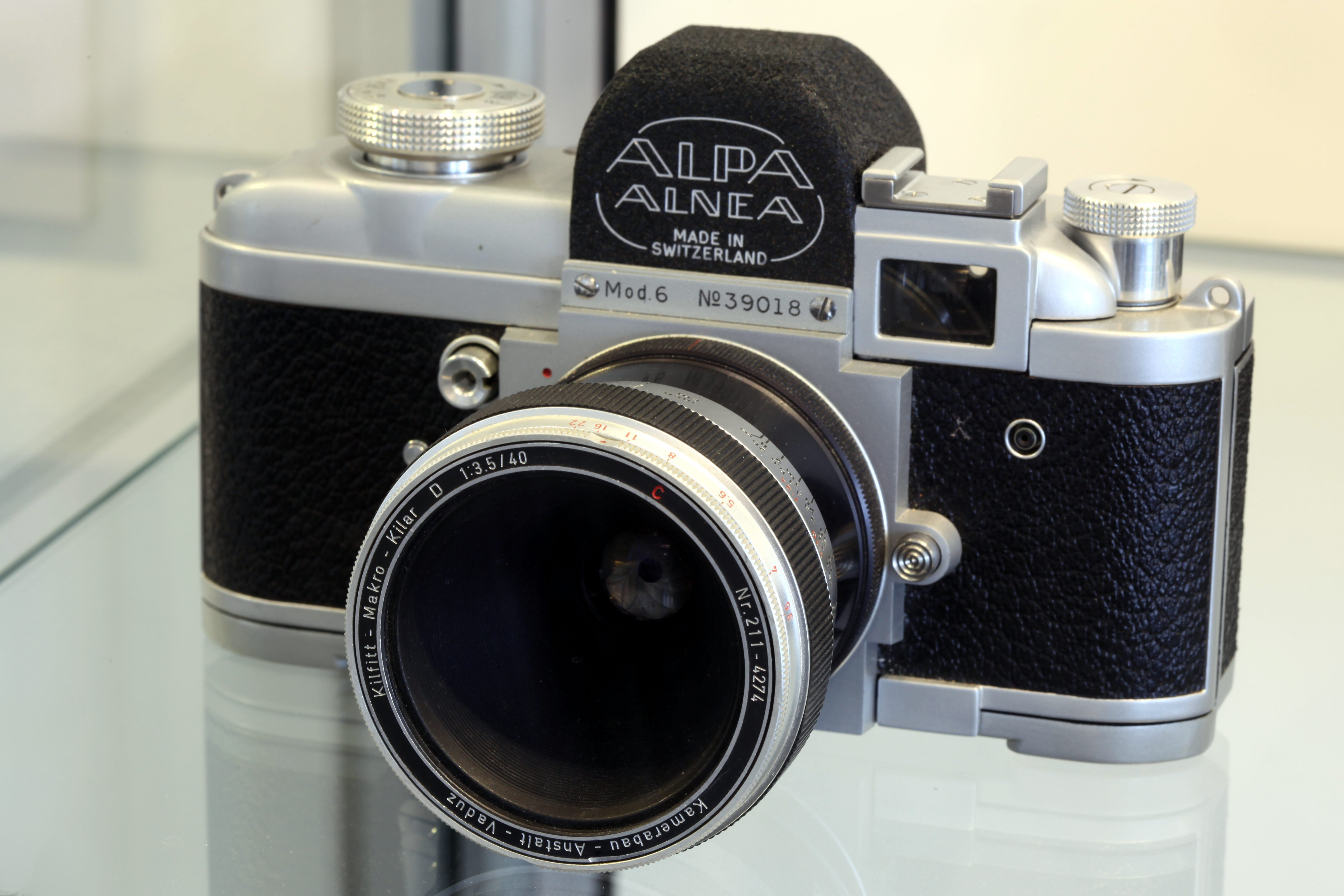 Alpa camera. On display at Vevey photography museum.